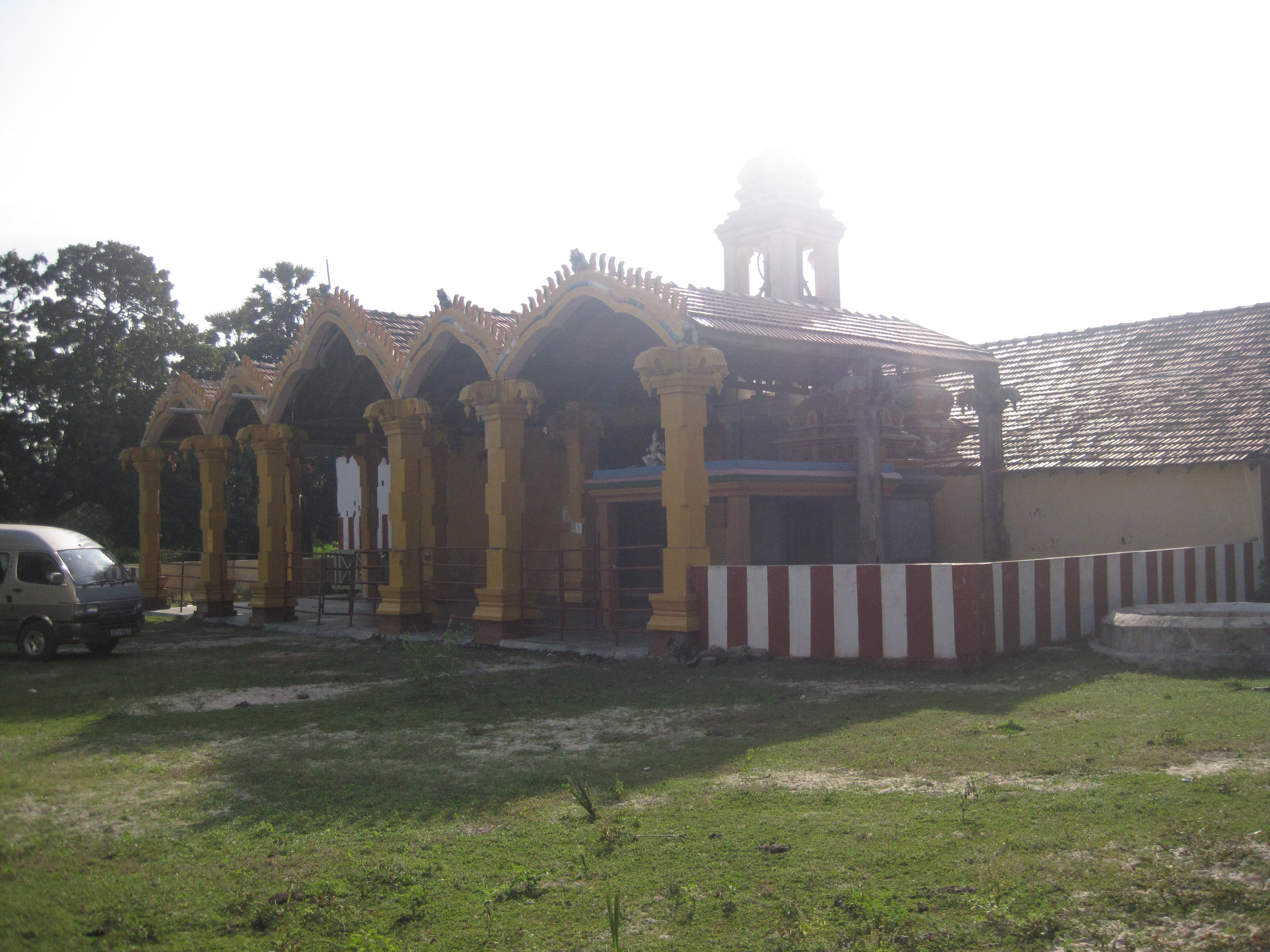 Picture taken by Parthi Kandavel of Toronto and given to me to upload in Wikimedia Commons